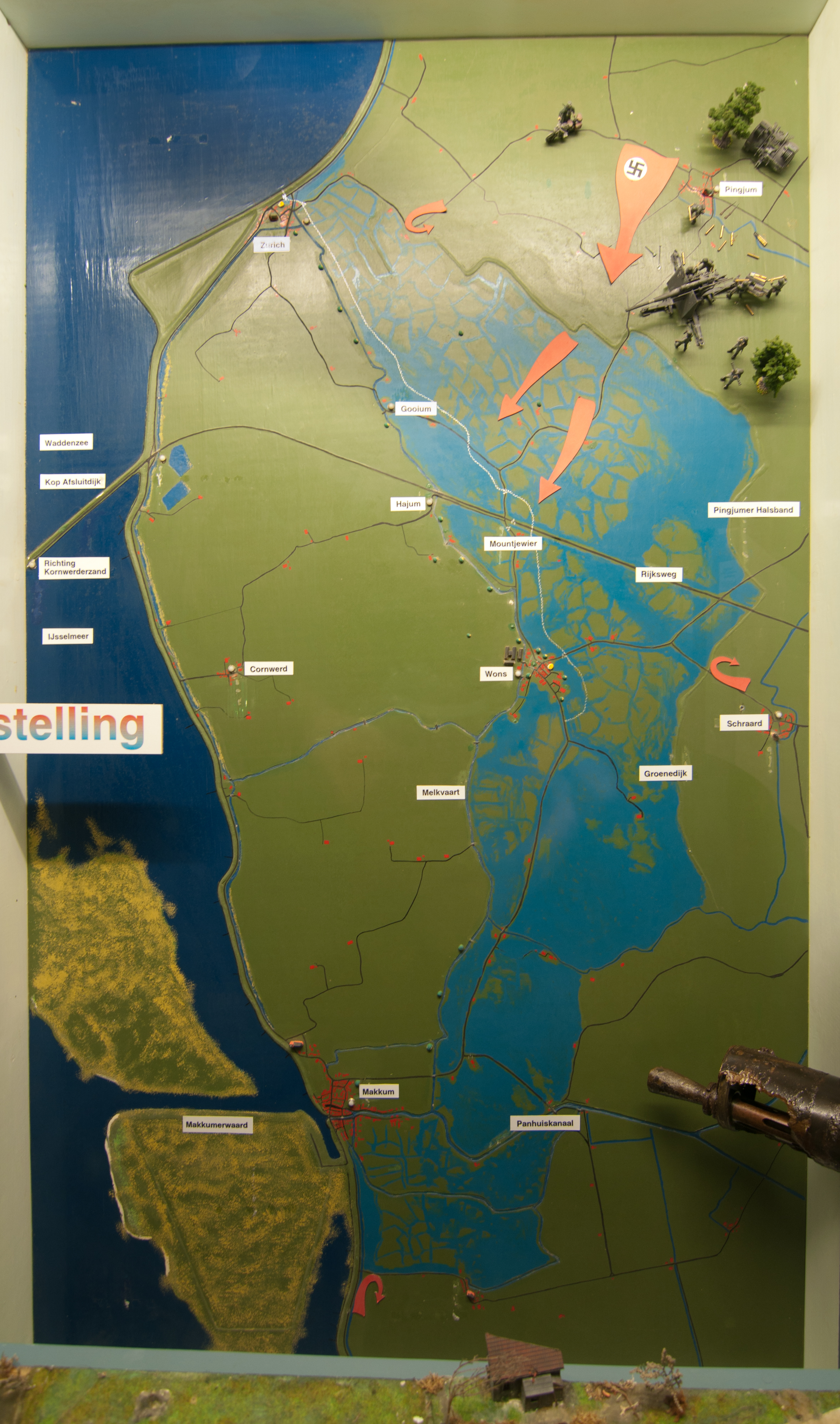 This was one of the few places that held out against the German invaders in may 1940. Its occupants only surrendered after the Germans bombed Rotterdam on the 14th of may and The Netherlands capitulated on the 15th of may 1940. Nikon D300 with Tokina 11-16 mm 2.8